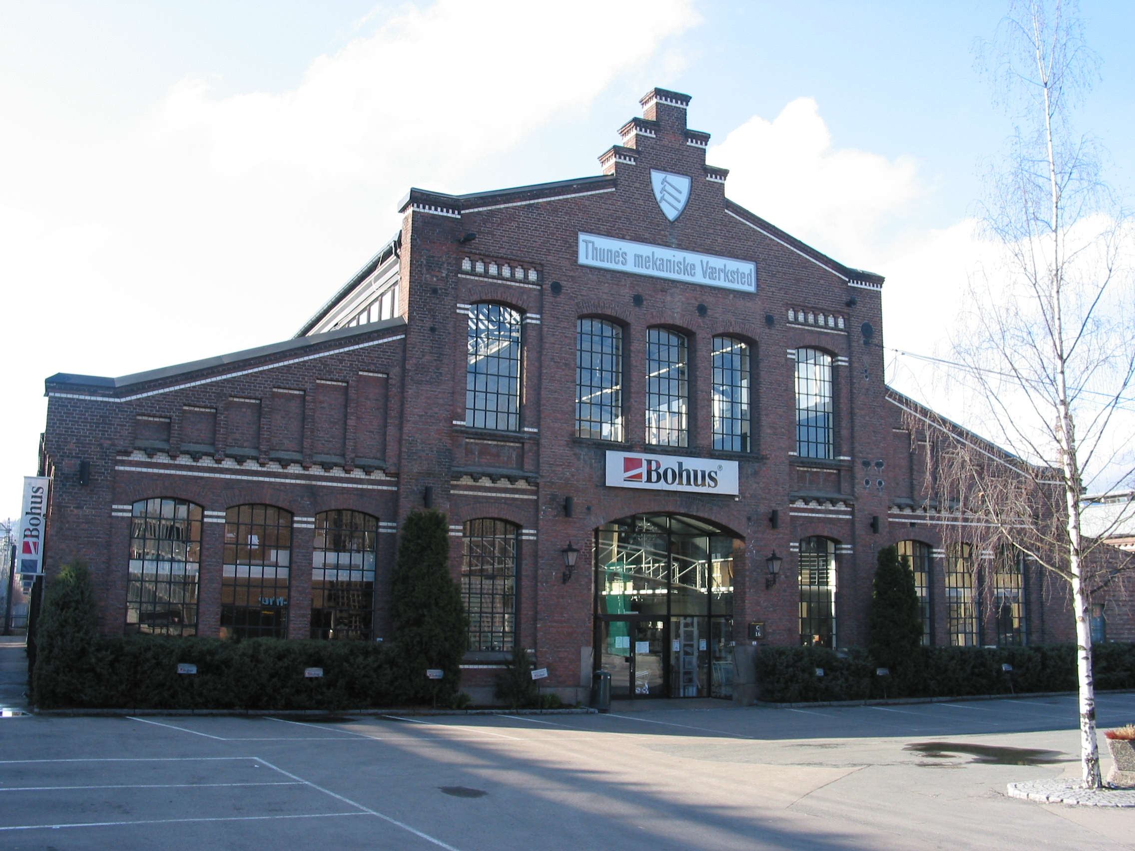 Former factory used by Thune, now used as a Bohus outlet. Located adjacent to the Drammen Line.